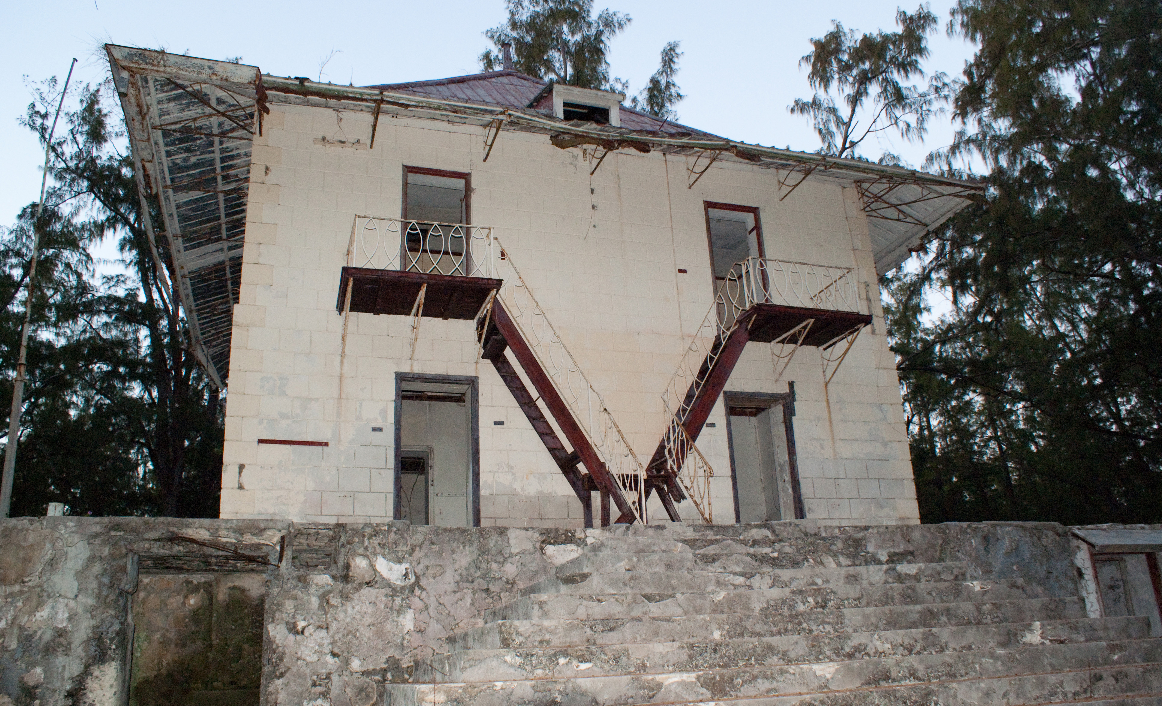 Patureau's house, Juan de Nova in Indian Ocean belonging to Scattered islands, within the territory of the France.